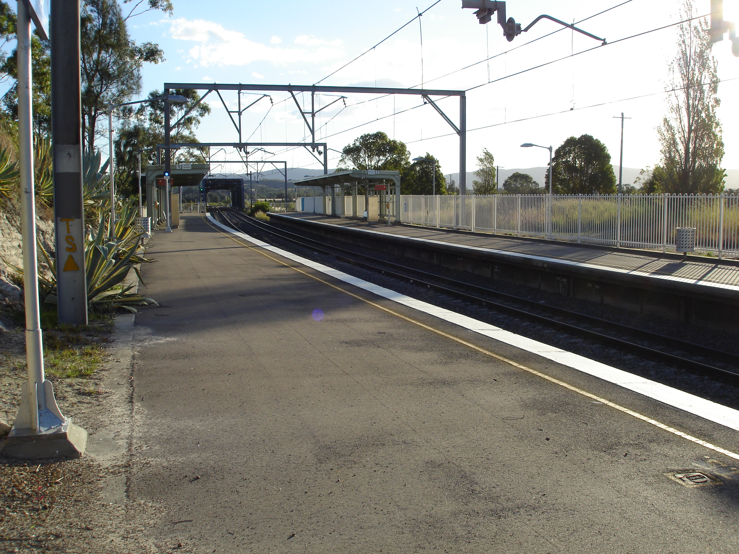 Cockle Creek station looking southbound taken by MrTwig